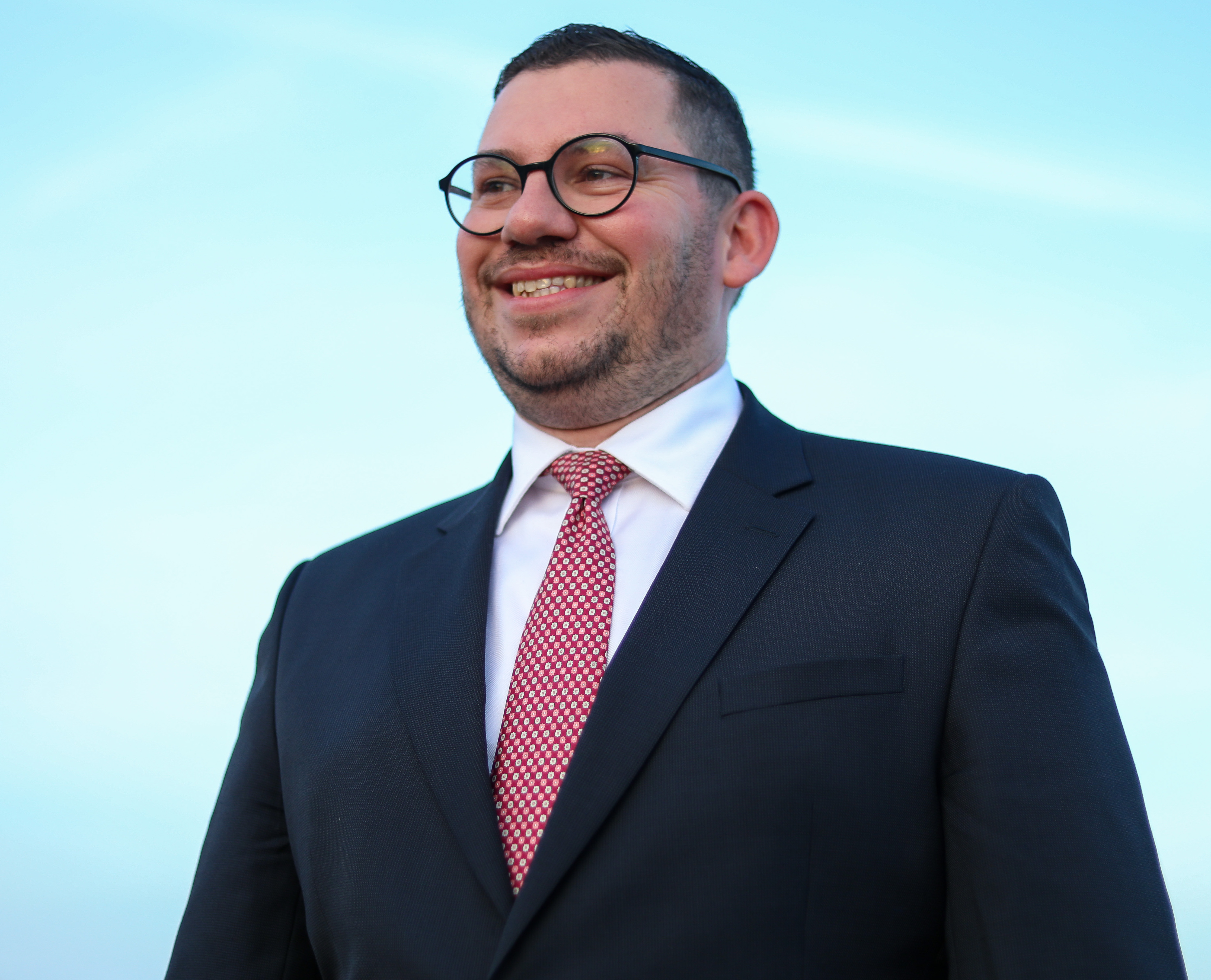 Photo of Cyrus Engerer while on a visit in Gozo